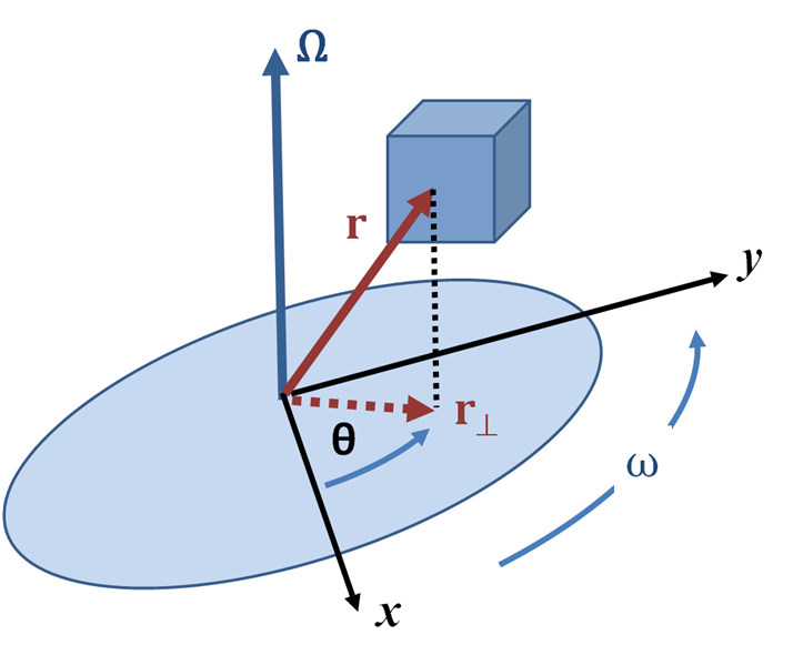 Angel of rotation about fixed axis